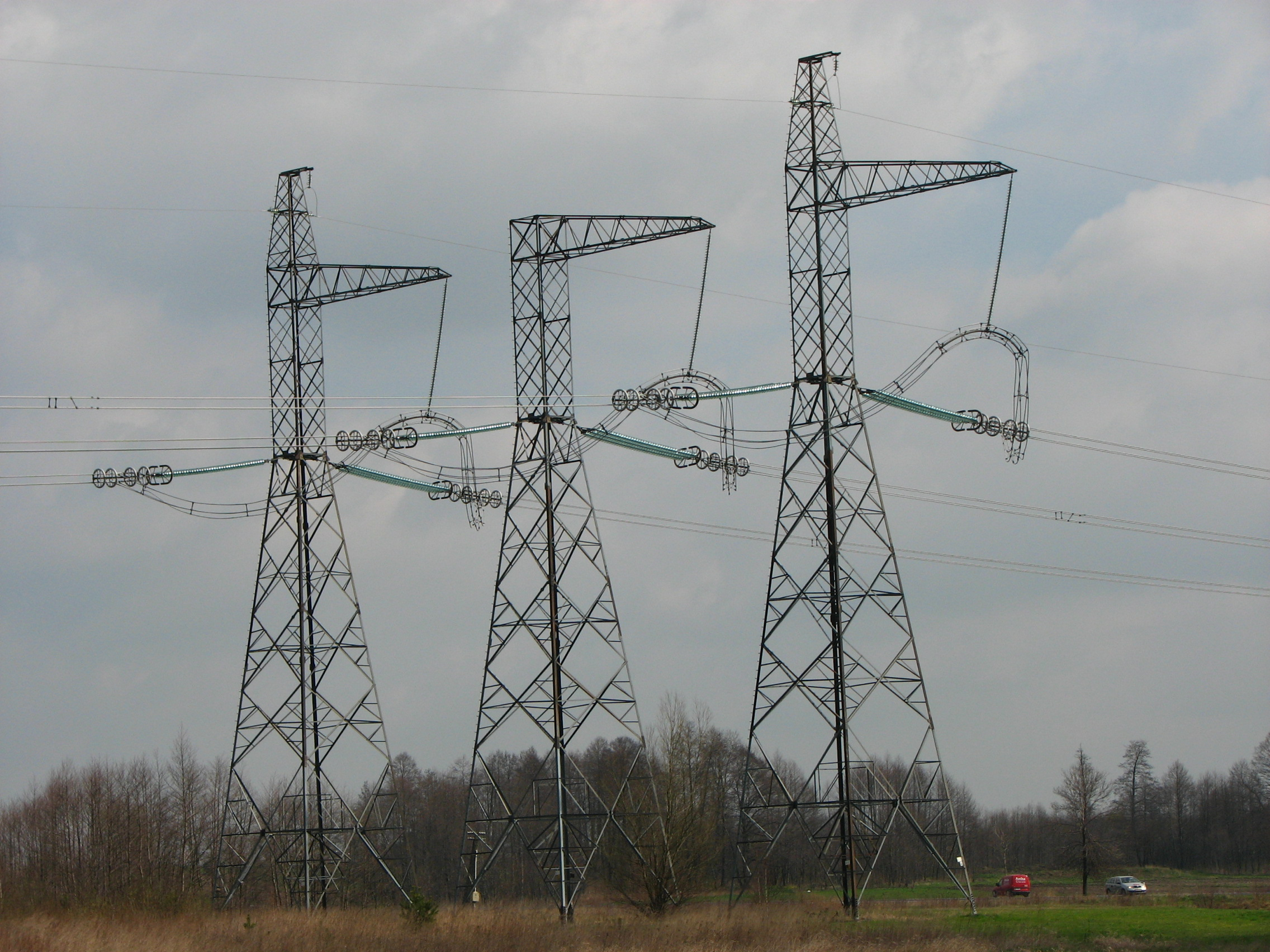 Rzeszów/Widełka–Khmelnytskyi 750 kV powerline: transmission towers near the power line crossing of the national road DK19 in Nienadówka, Poland.